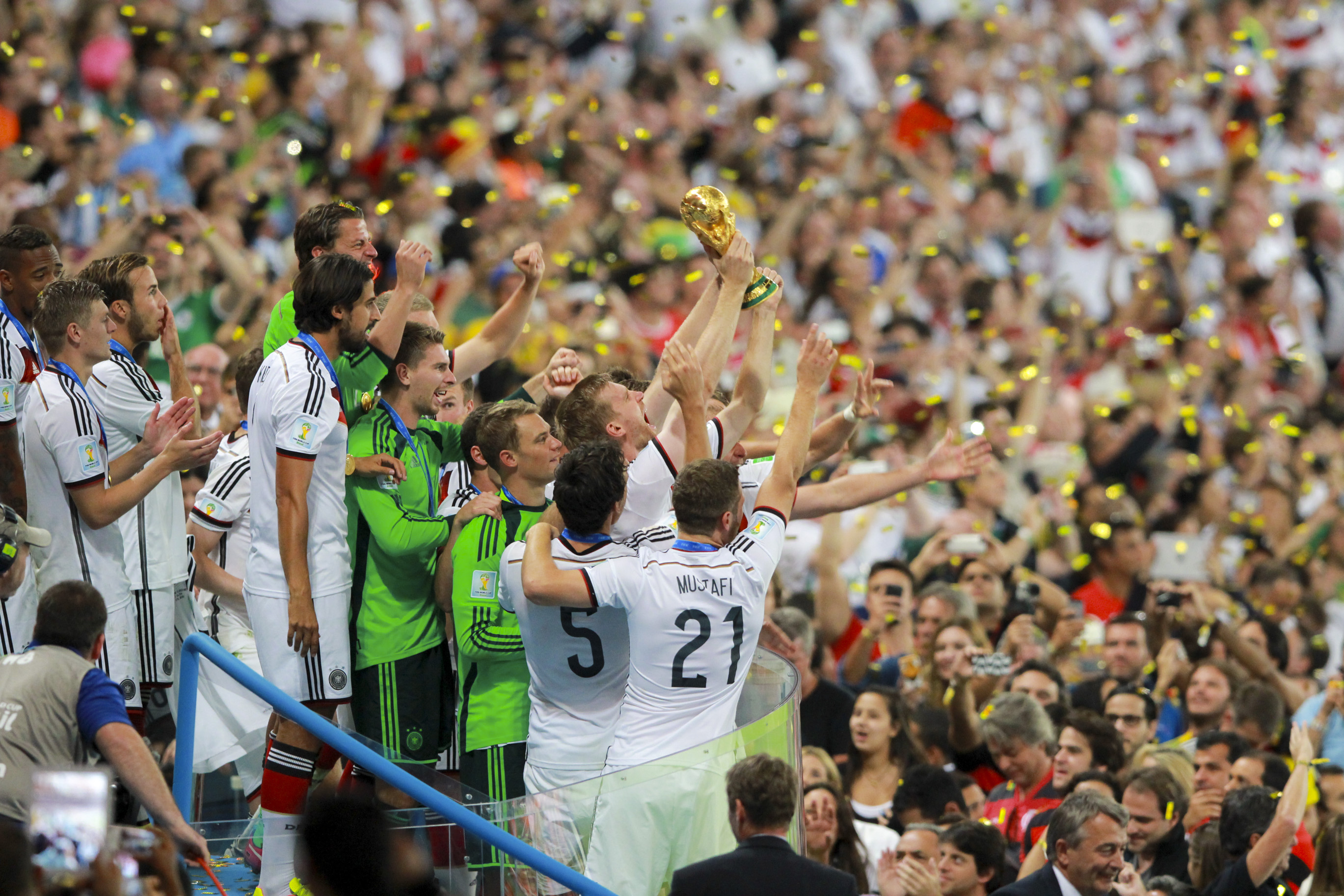 The final match of World Cup 2014 between Germany and Argentina 2014-07-13